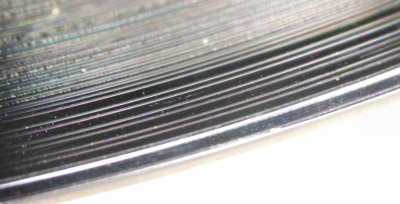 Close up of the 12" double groove single "Popmuzik" by M